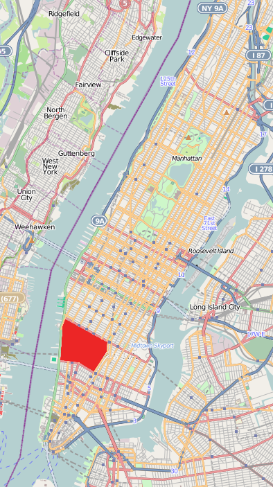 Greenwich Village within the Map of Manhattan Geographic limits of the map: * N: 40.8383° * S: 40.6909 * W: -74.0343° * E: -73.9252°